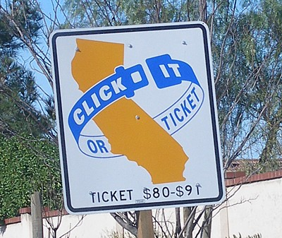 A warning sign reminding motorists in the U.S. state of California about the national "Click It or Ticket" seat belt education campaign. Photographed on State Route 4 near Discovery Bay.